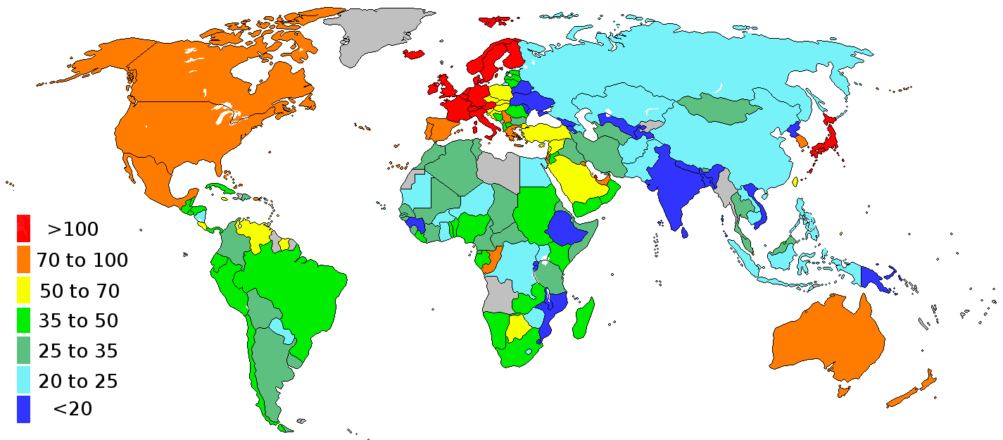 World map color coded by PPP price levels. Data from Penn World tables. 2003 price level of GDP. US is base (=100)